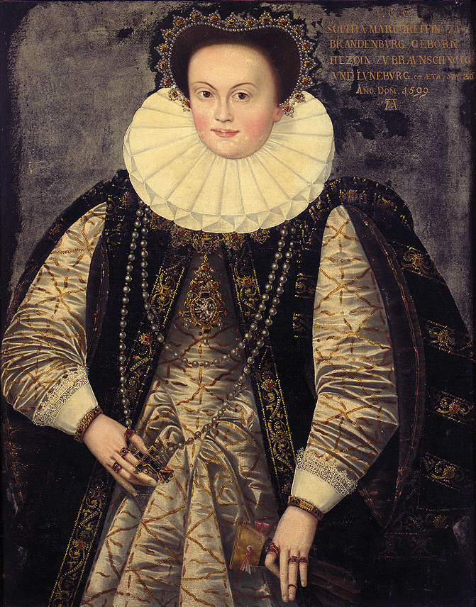 Portrait of Sophie of Brunswick-Lüneburg (1563-1639), Margravine of Brandenburg-Ansbach